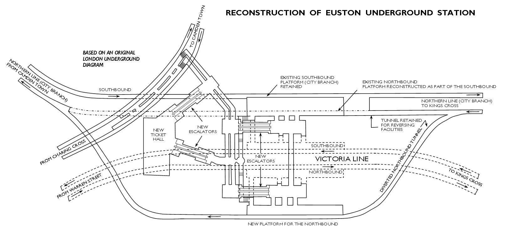 Plan layout of Euston station on the London Underground showing the changes made to the station when the Victoria line was constructed.